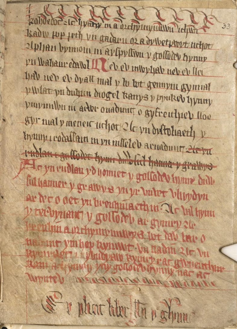 An image from a manuscript containing the text of Statud Rhuddlan (the Statute of Rhuddlan) by a single scribe and dating from the second half of the 15th century.